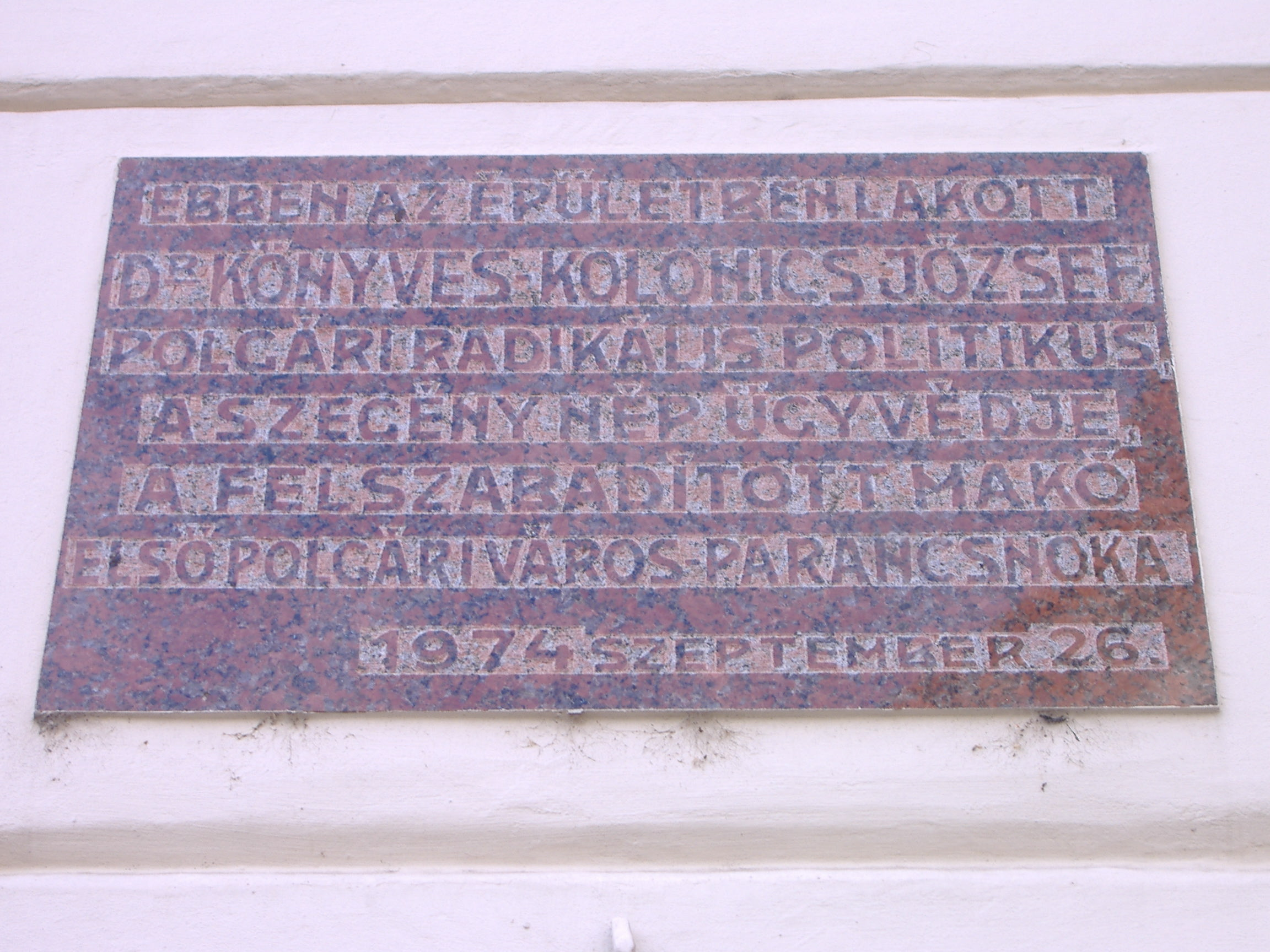 Memorial tablet of József Kolonics Könyves, politician in Makó, Hungary.